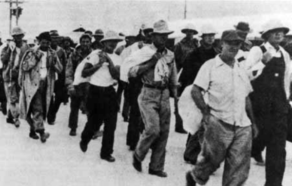 Civilian contractors are marched off to captivity after the Japanese captured Wake, 23 December 1941. Some, deemed important by the Japanese to finish construction projects, were retained there. Fearing a fifth column rising, the Japanese executed 98 contractors in October 1943 after U.S. air attacks, an atrocity for which atoll commander, RAdm Shigematsu Sakaibara, was hanged after the Second World War.